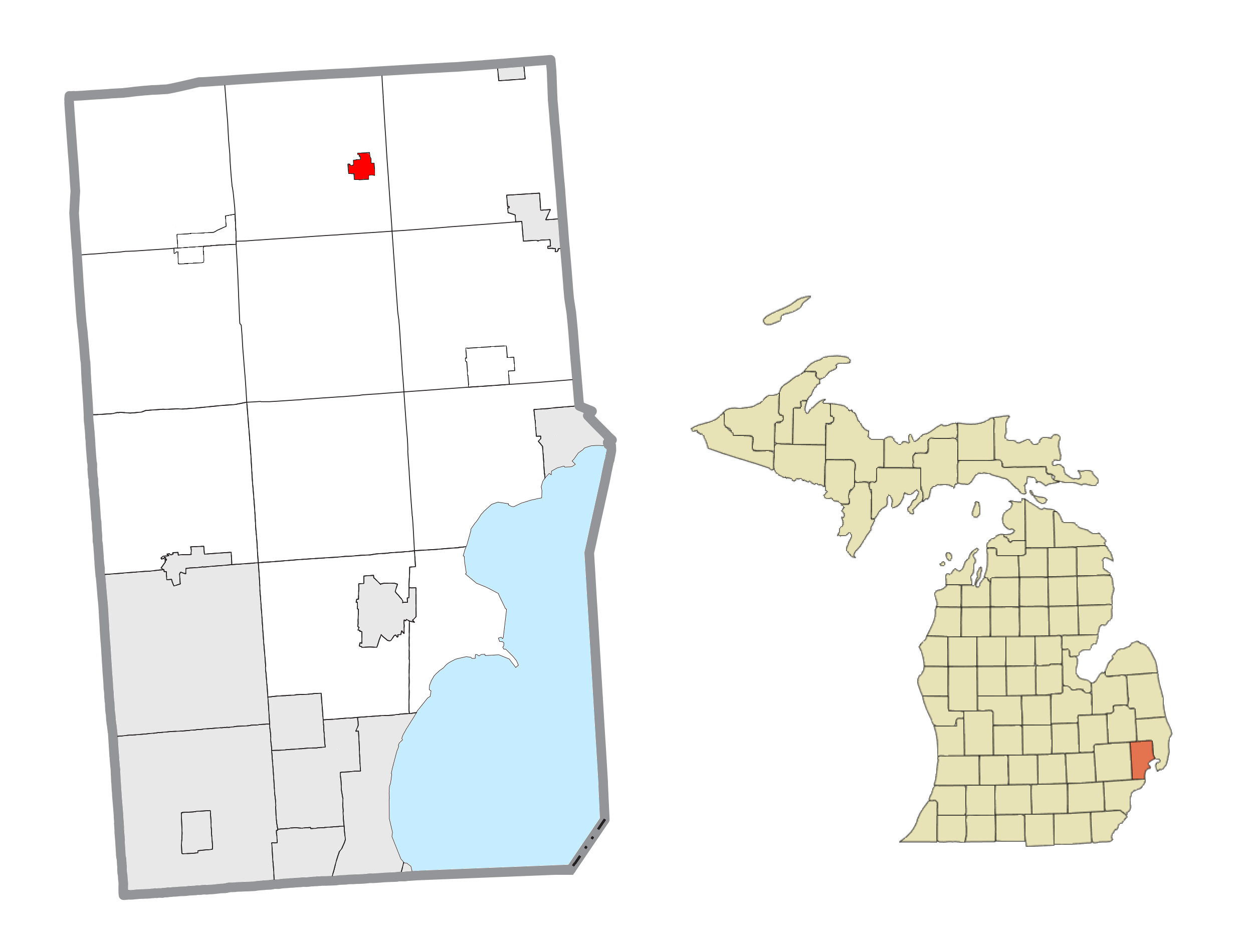 Armada, MI